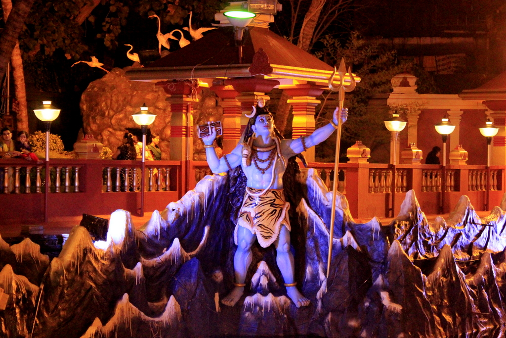 Shiva Statue, captured at kudroli Gokarnanatha Temple, Mangalore, Karanataka, India